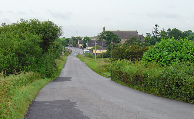 Approach to Teemore, Co. Fermanagh